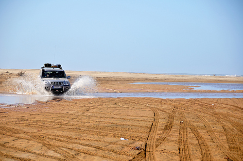 Raid 4x4